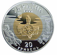 Coin of Ukraine